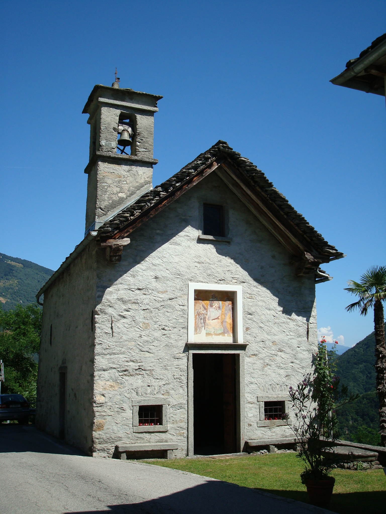 Chiosso village church, Mosogno, Ticino, Switzerland